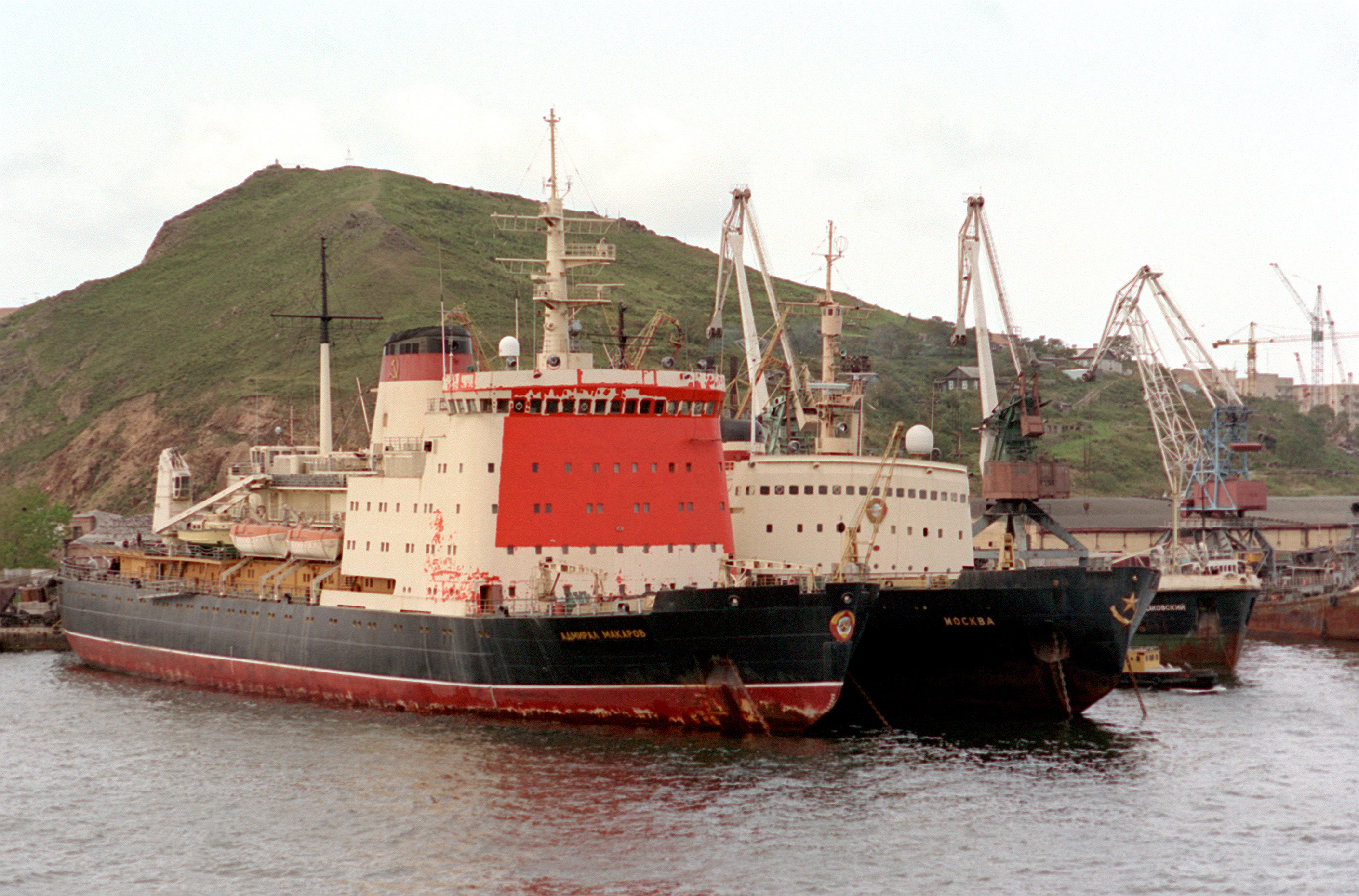 The Russian icebreakers Admiral Makarov and Moskva stand moored to a pier, along with other vessels, during a three-day goodwill port call by the high endurance cutter USCGC Chase (WHEC-718) and the guided missile frigate USS McClusky (FFG-41). Admiral Marakov: IMO Number: 7347603 MMSI Number: 273148110 Callsign: UGSN Length: 135 m Beam: 26 m Moskva Length: 122.10 m Beam: 24.5 m